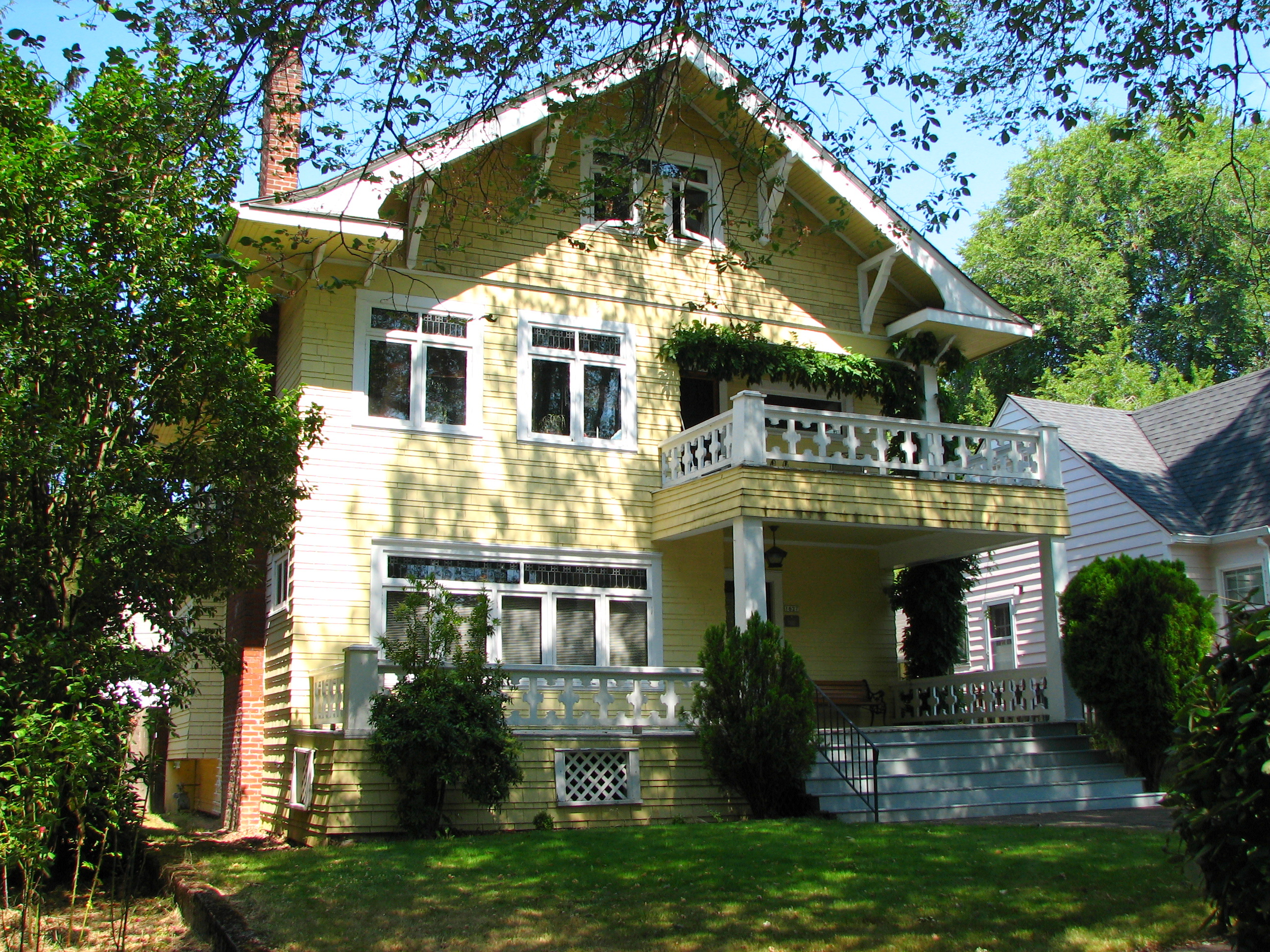 The historic George and Minnie Clark Residence, located at 1627 Southeast Elliott Avenue in Portland, Oregon, United States, is listed as a contributing resource within the Ladd's Addition Historic District.